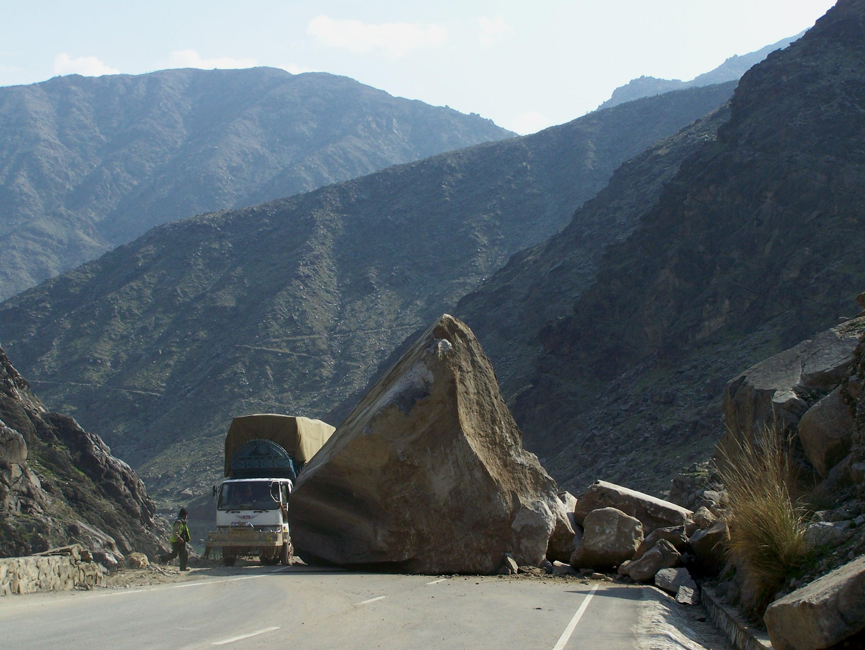 Jalalabad Rd., highway from Kabul to Surobi and Jalalabad, Afghanistan